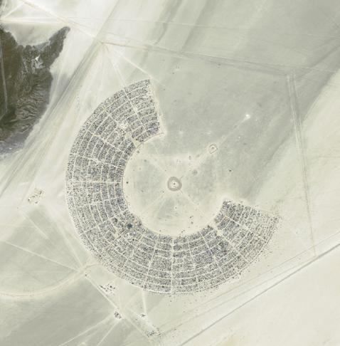 Satellite image of Black Rock City for Burning Man 2005, taken from NASA World Wind. Personal creation from NASA World Wind program, zoomed in and centered on Black Rock City. Whole "city" represented to avoid confusion.